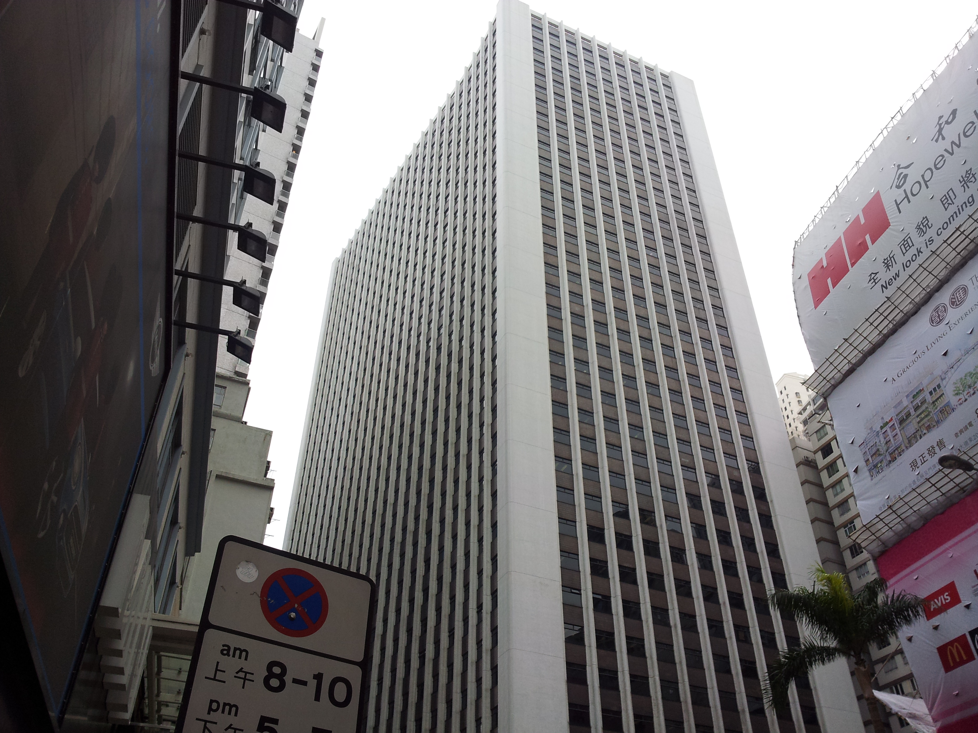 Wu Chung House (Jan 2015)